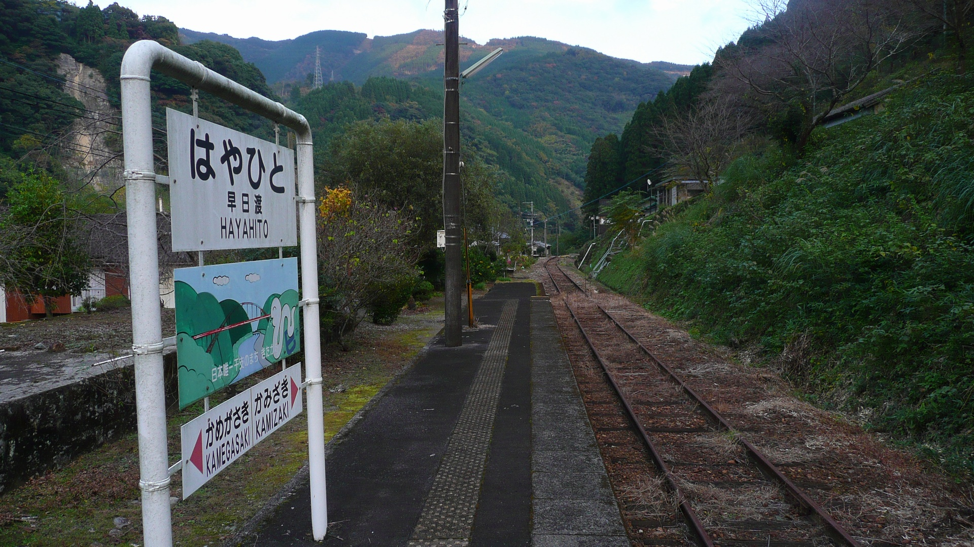 Former Takachiho Railway - Hayahito Station (Kitakata, Nobeoka City, Miyazaki, Japan)